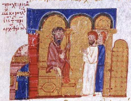 Enthronement of Patriarch Michael Keroularios